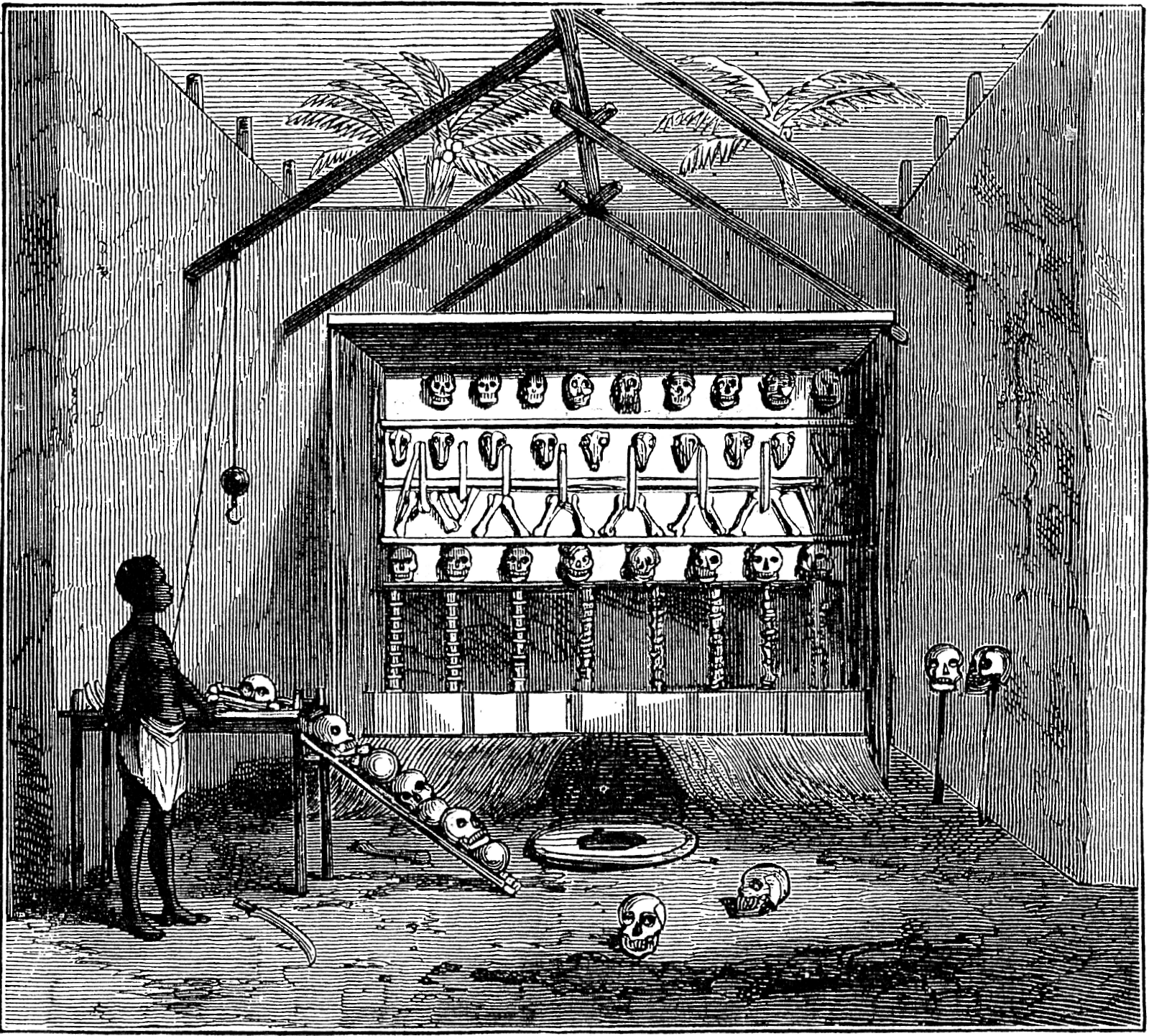 "This Ju-ju house or chapel at Bonny, the interior of which is shown in the last of Mr. Harries' sketches, was a wattle-and-dab shed, oblong in form, and thirty or fourty feet in length. At the upper end was a kind of altar, with a canopy or eaves of mat, and with a concave recess at the back. Across the front, underneath the roof, were arranged in two rows, impaled together, a number of fleshless human skulls. Some of these were painted, or otherwise decorated; one had a black imitation beard, which was doubtless a copy from life. Between the two rows of human skulls was a line of goats' heads, also streaked with red and white. An old bar shot, used probably as a club to fell the victim, hung in a corner. Near the ground was fixed a horizontal board, or shelf, which was striped like the relics above. A sweep of loose thatch below this, like a fringe or valance, covered the base of the altar, but left a hole in the middle, where a round hole or basin, with a raised rim of clay, was made to receive libations and the blood of victims. There were spare rows of skulls, and others seperate, upon stakes planted against the walls about the room. [We may refer to the book of Mr. Harries, 'Wanderings in Africa, from Liverpool to Fernando Po, by a F.R.G.S.,' published by Messrs. Tinsley.]" - Original description with this engraving It should be noted that this is a Victorian description, written based on a book by a sensationalist author (other illustrations in this issue include a woman being sacrificed to Ju-ju by being tied to a post on the shore, and left until the tide came in, when the sharks could eat her). So take this with a grain of salt.